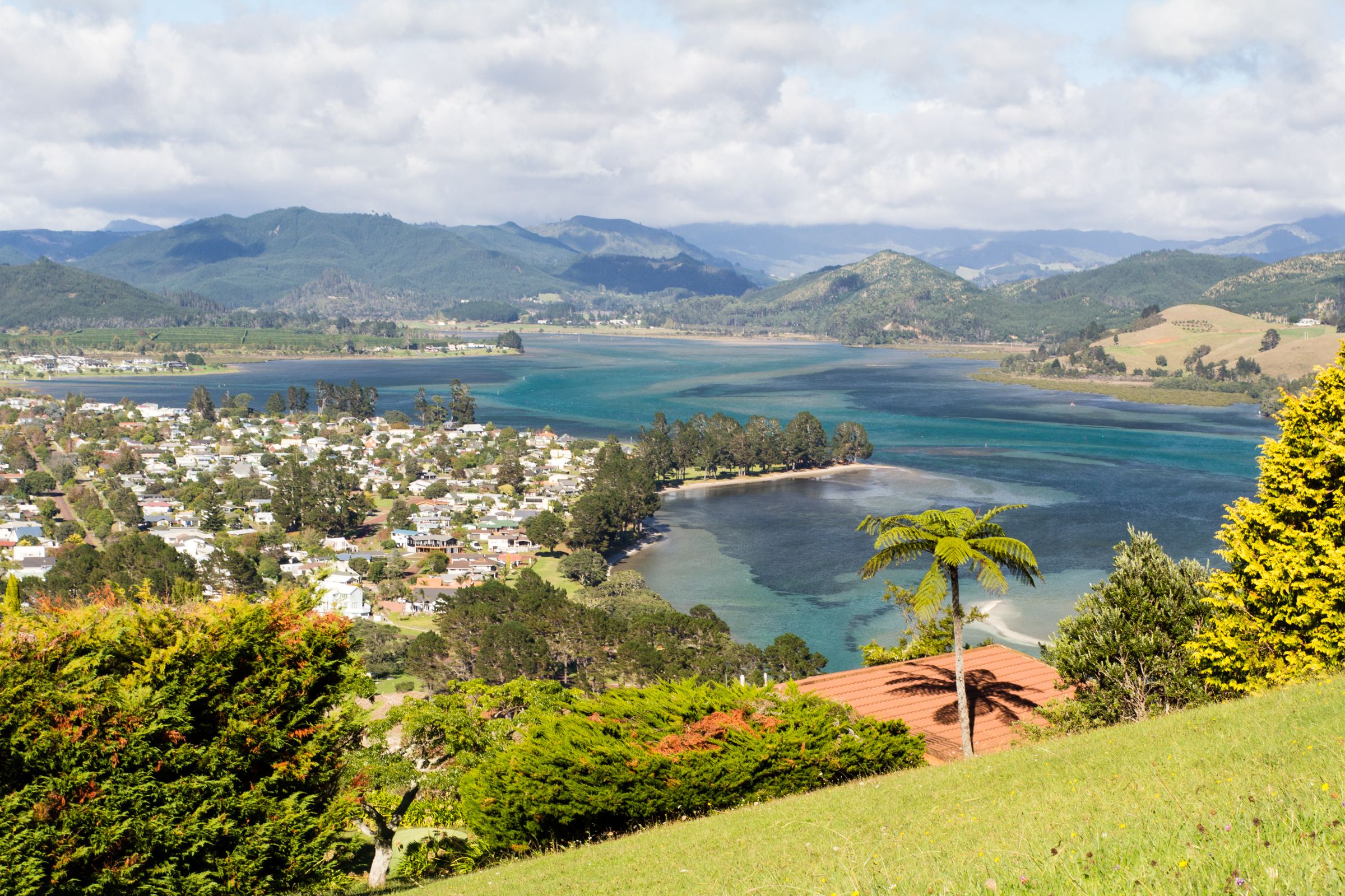 Pauanui and Tairua harbour from the top of Mount Paku, Tairua, on the Coromandel Peninsula